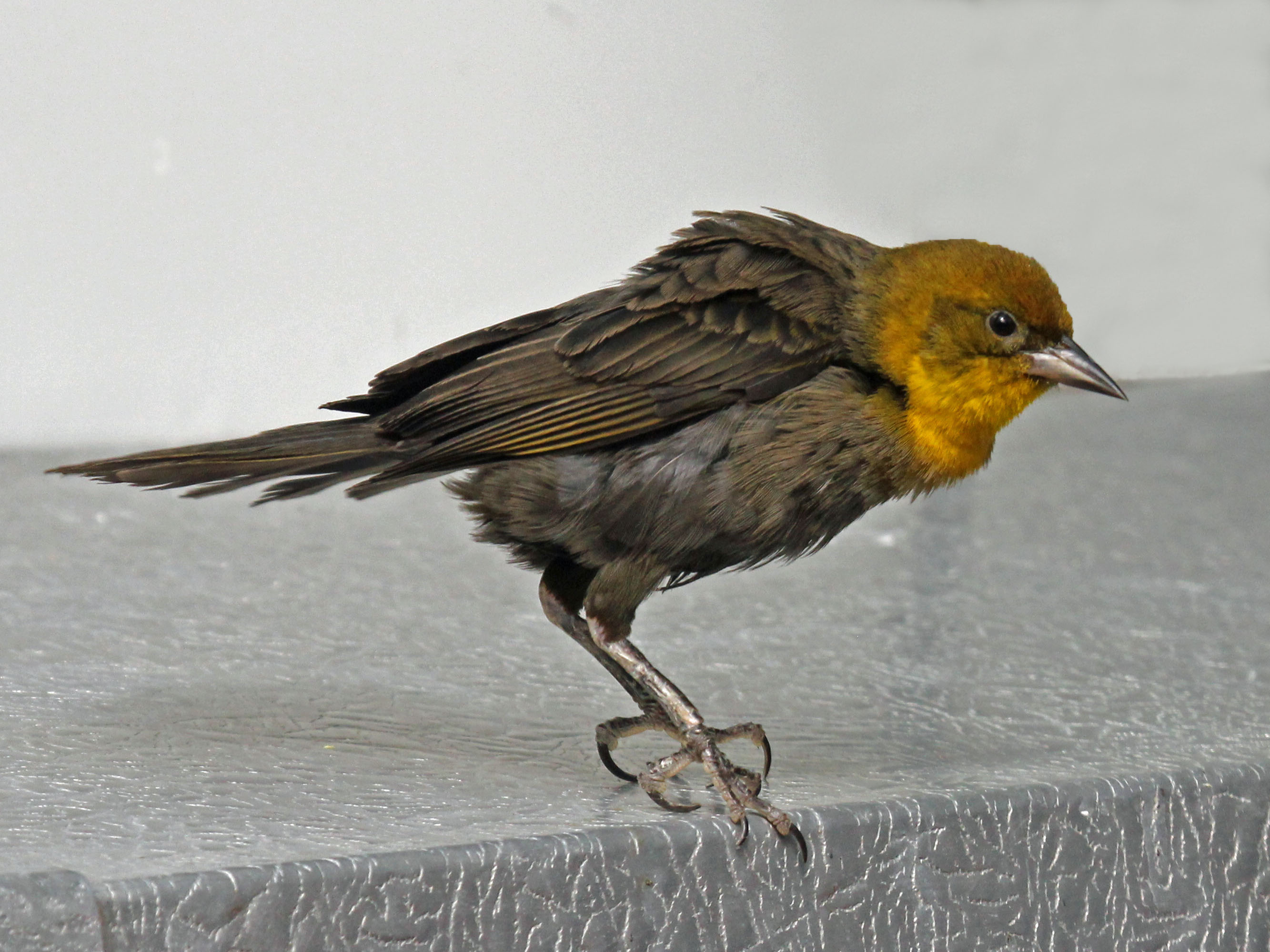 Yellow-hooded Blackbird (Chrysomus icterocephalus) - National Aviary in Pittsburgh, Pennsylvania. This is either a female or juvenile.